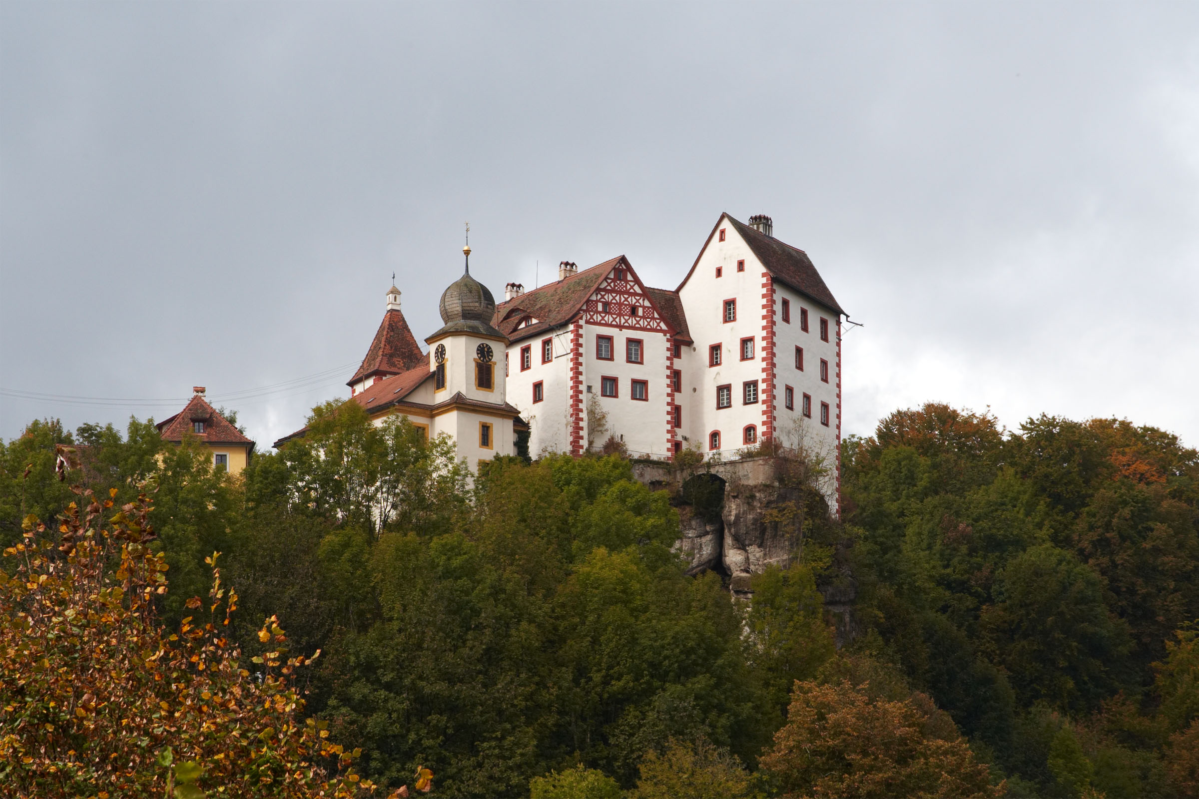 View from west to the Castle Egloffstein.